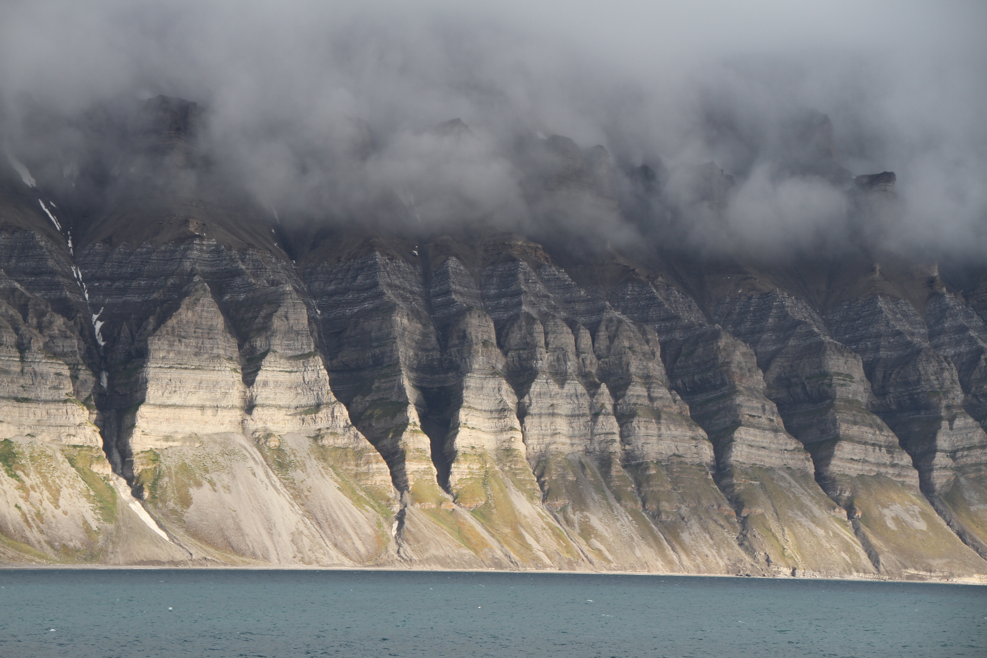 Western coast of Bünsow Land, seen from Billefjorden - inner Isfjorden in central Spitsbergen.